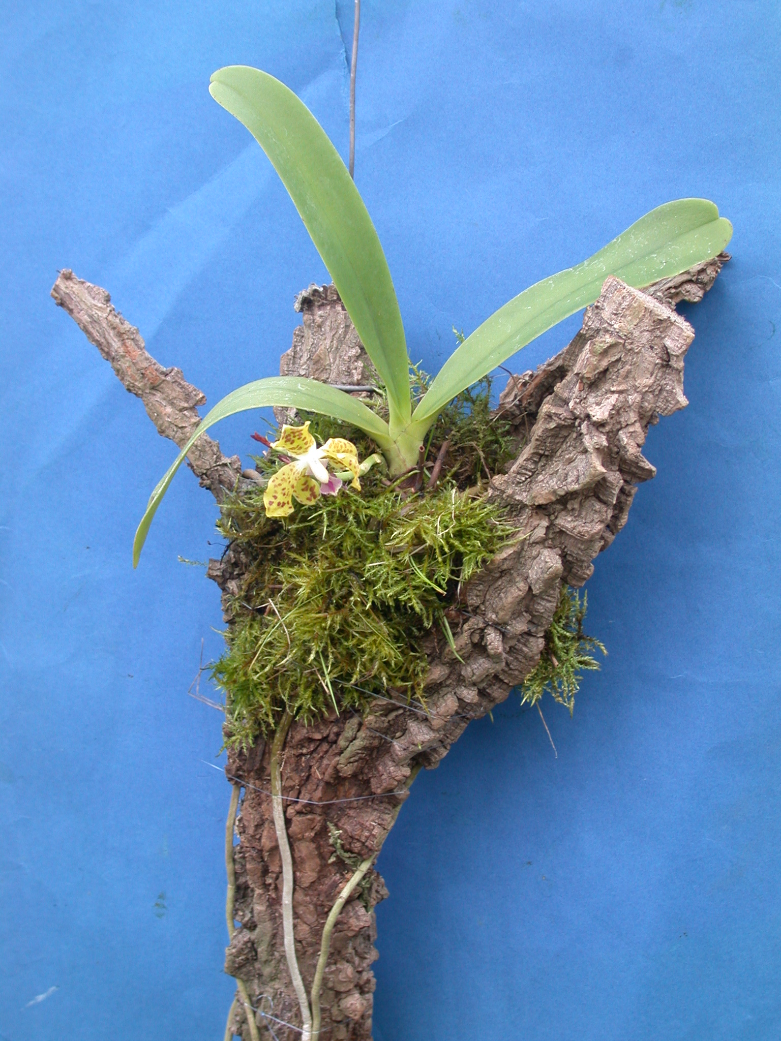 Hygrochilus parishii, syn. Vandopsis parishii